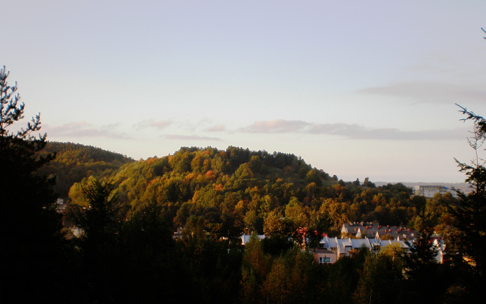 Góra Markowca, Rumia, Northern Poland